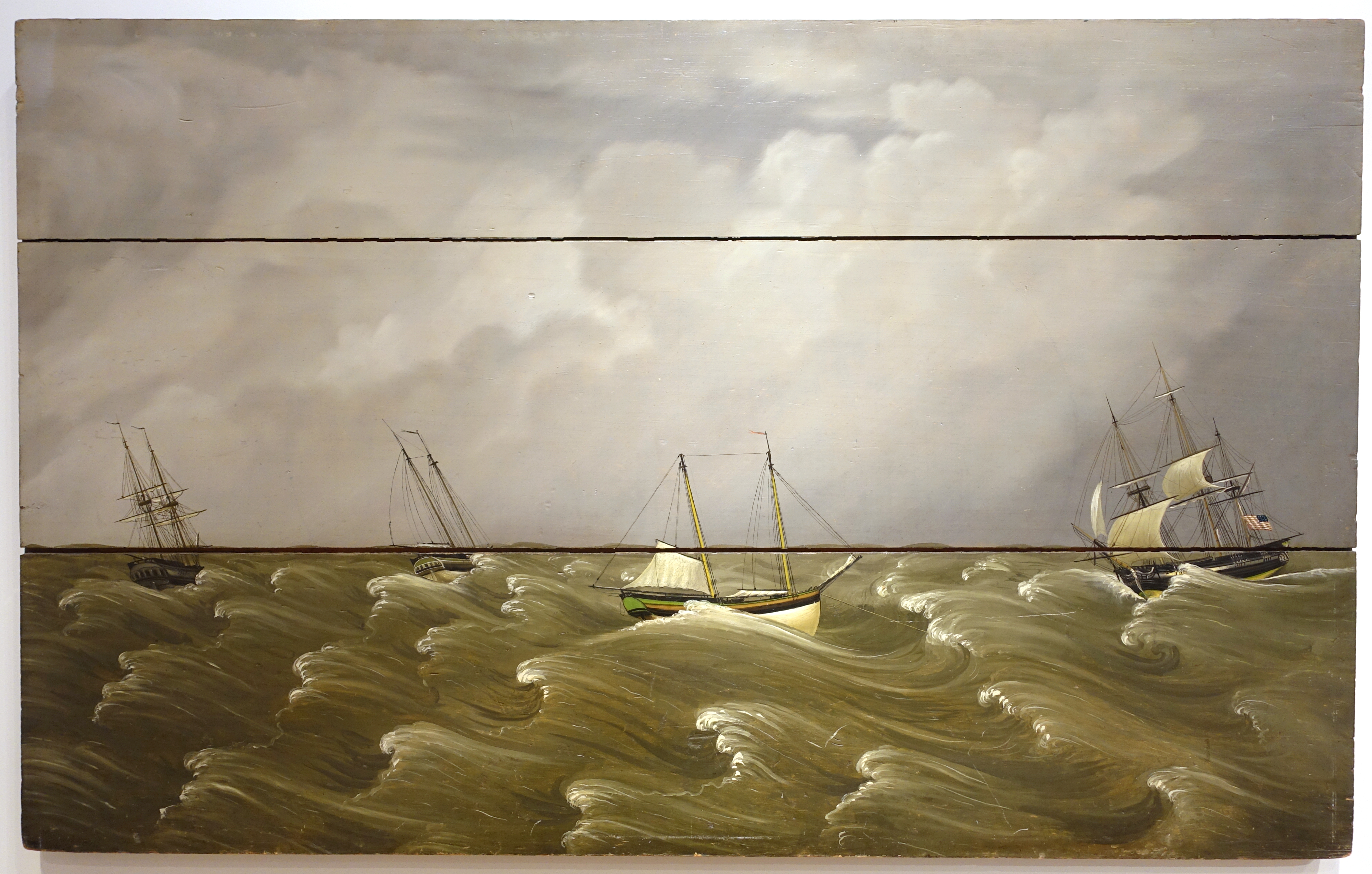 Exhibit in the Peabody Essex Museum - Salem, Massachusetts, USA.